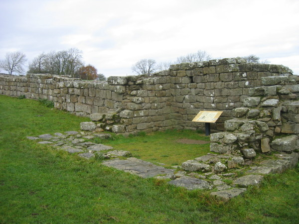 Black Carts Turret We surveyed this turret when I was at college in September 1965. Then it was overgrown and covered in brambles which made it difficult.